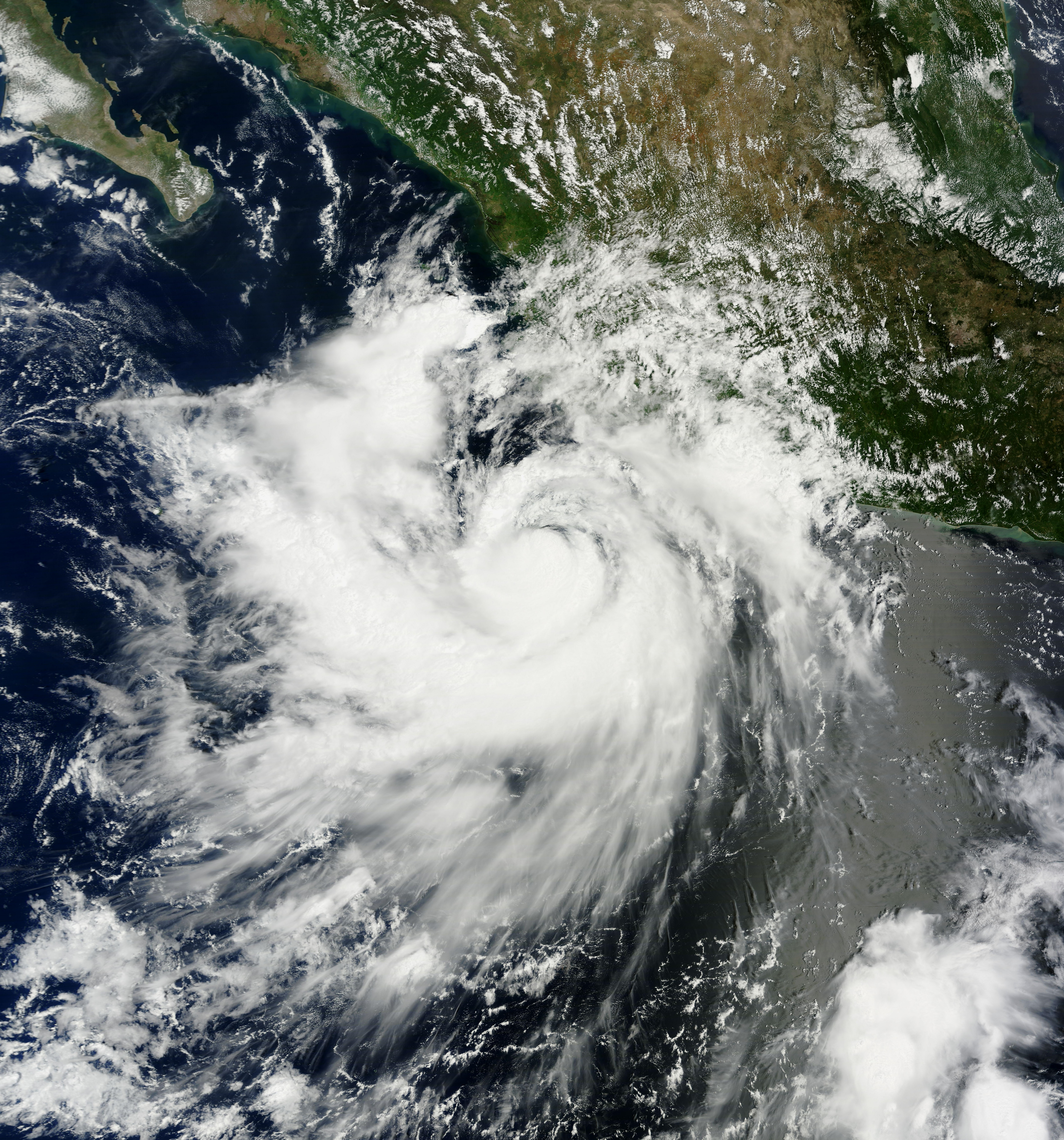 Hurricane Polo (17E) off Mexico